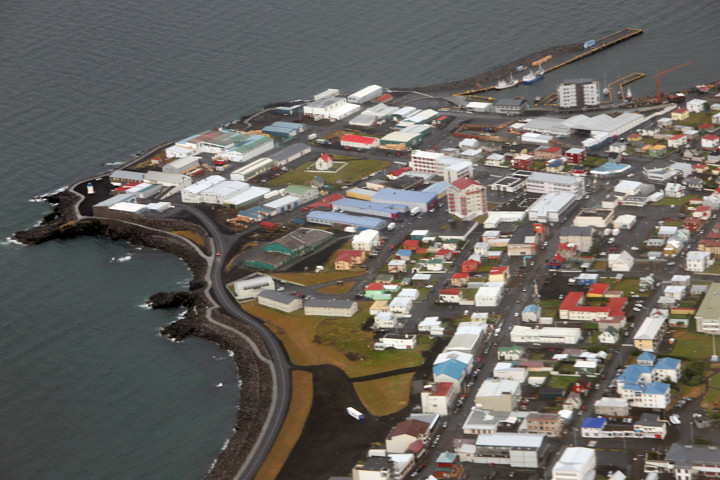 Keflavik in Reykjanesbaer as seen from a plane taking off from Keflavik Airport.